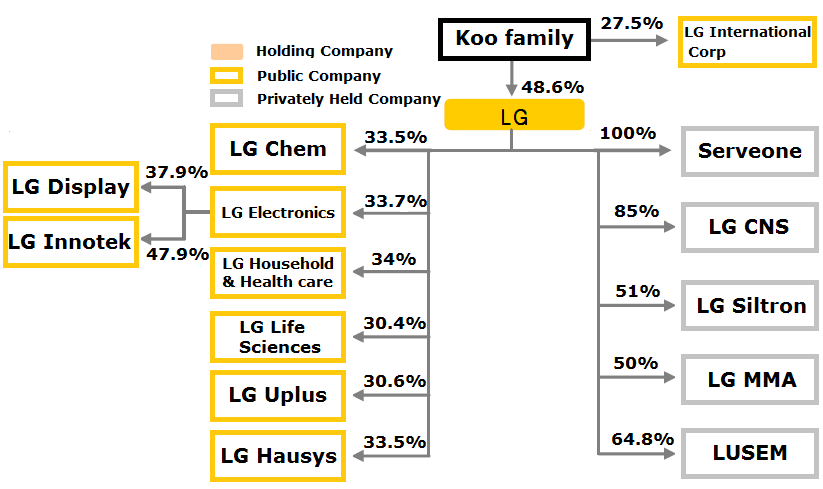 LG Corporation is a holding company that operates worldwide through more than 30 companies in the electronics, chemical, and telecom fields.